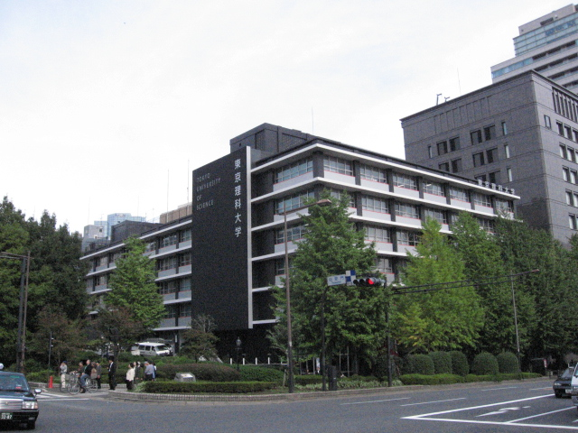 Tokyo_University_of_Science_campus of Kasgurazaka from Kudan, Tokyo.